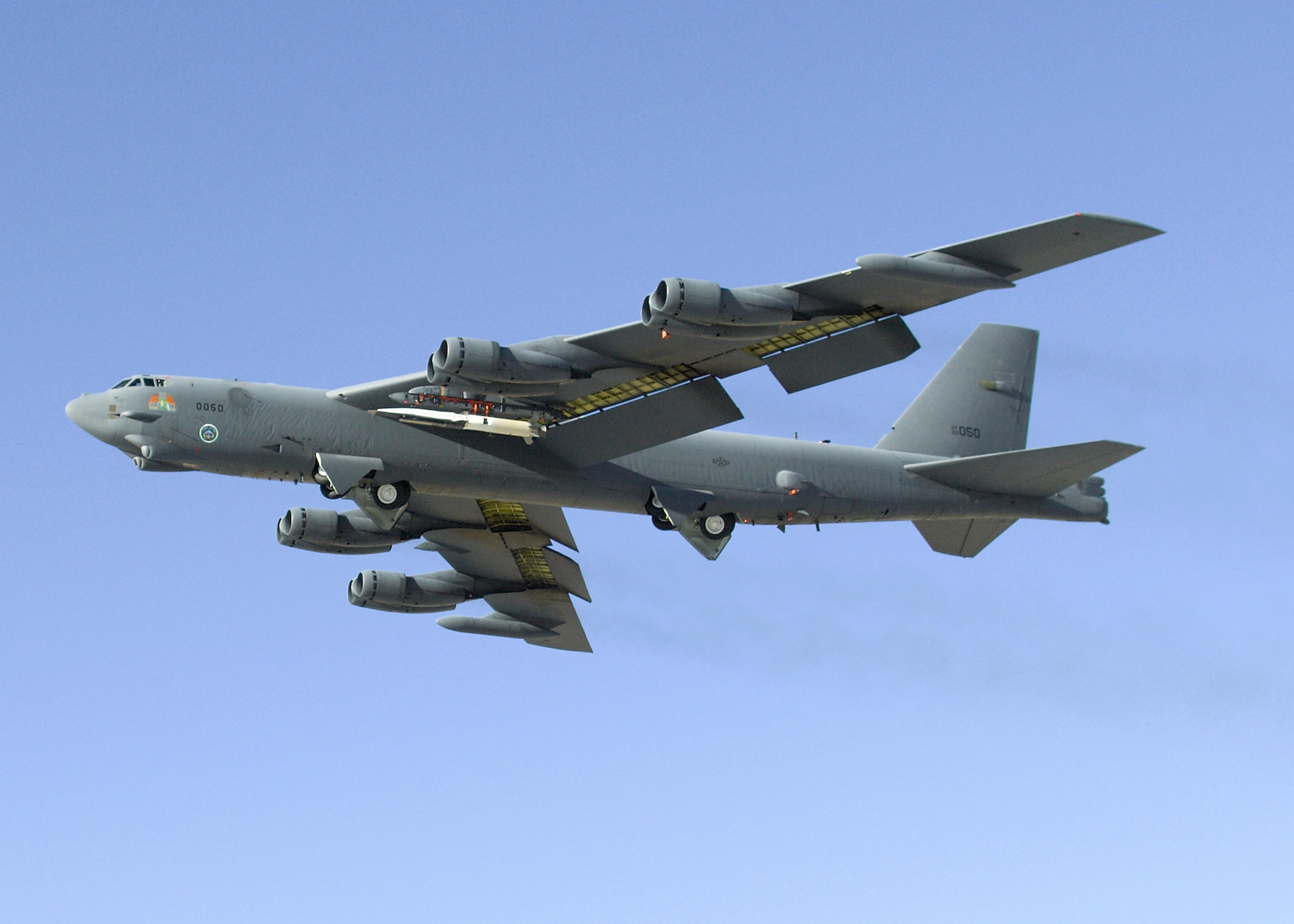 A B-52 Stratofortress performs a captive carry flight of the X-51A Scram Jet Dec. 9. The flight was performed to test the aircraft's airwortiness prior to its first flight.